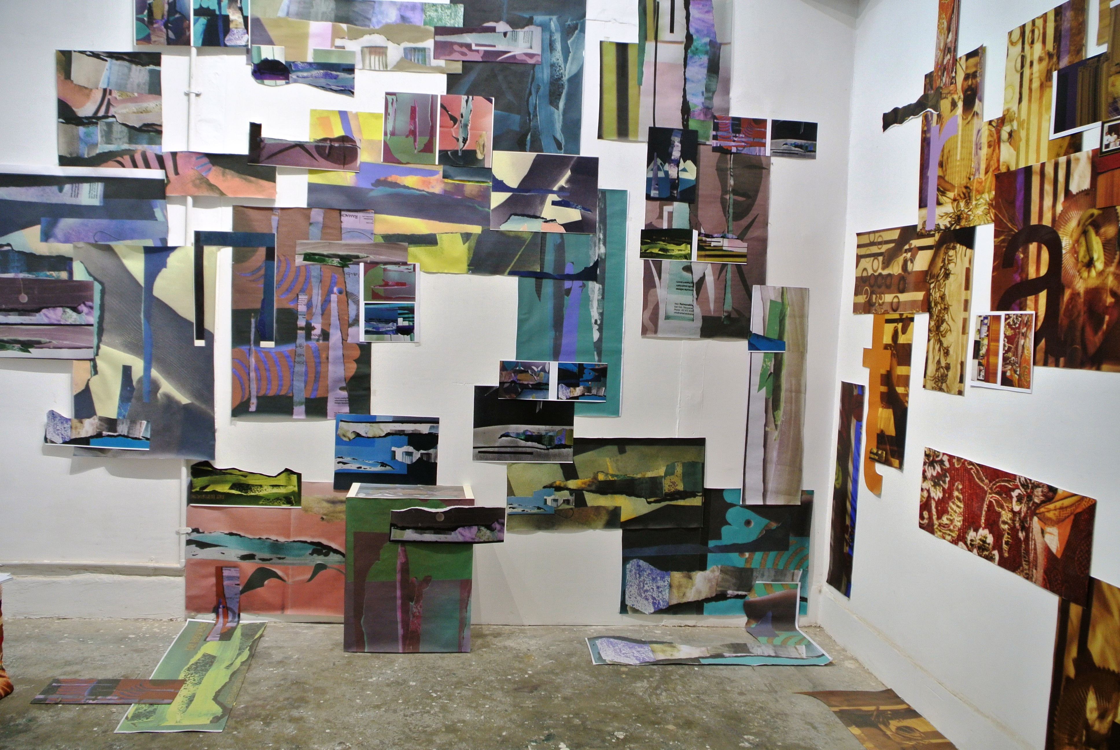 abstract art by acrylic medium